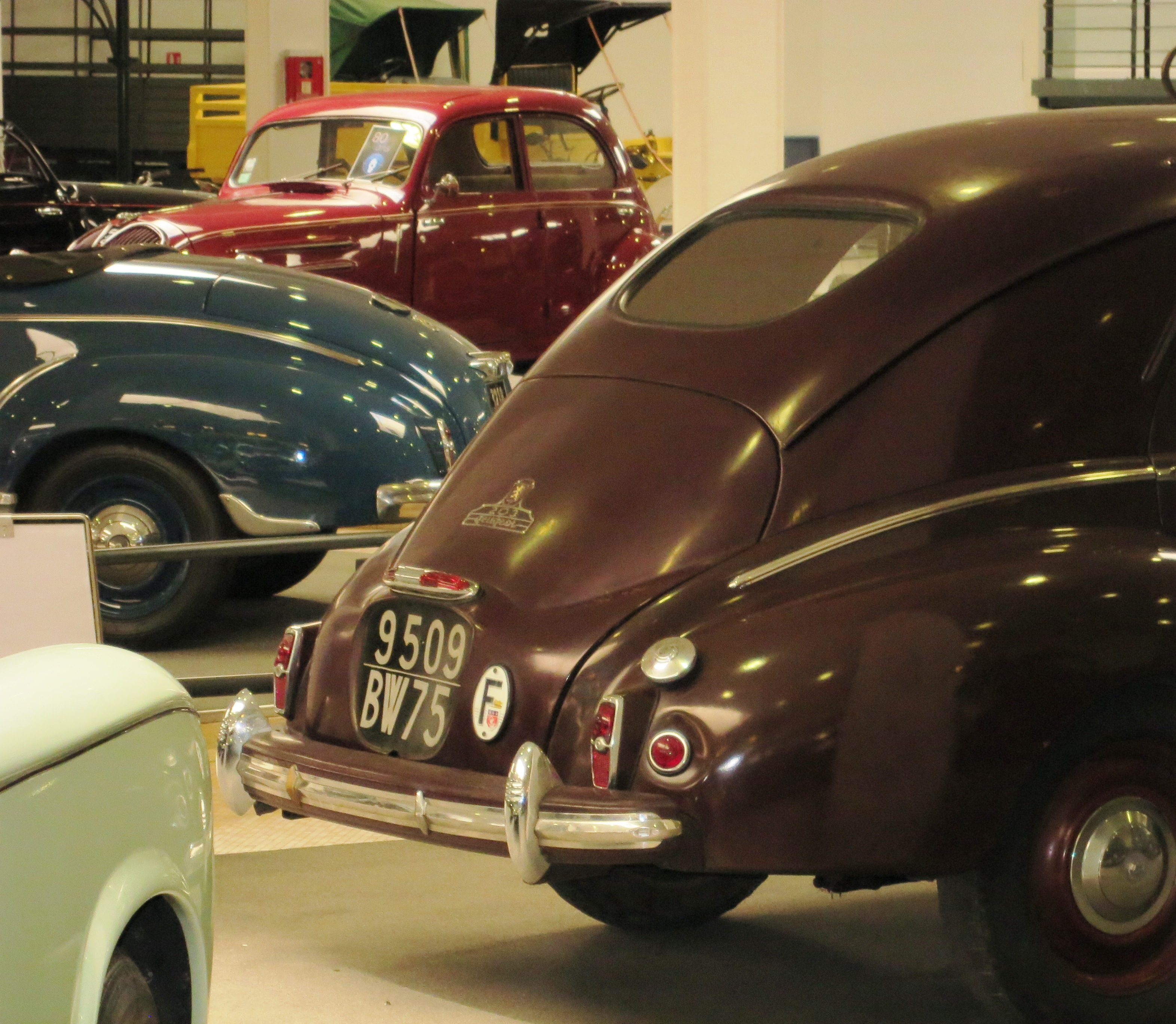 Peugeot 203 highlighting the exposed fuel filler cap on the pre 1953 cars. This example was exhibited at the Peugeot museum in Sochaux in 2015